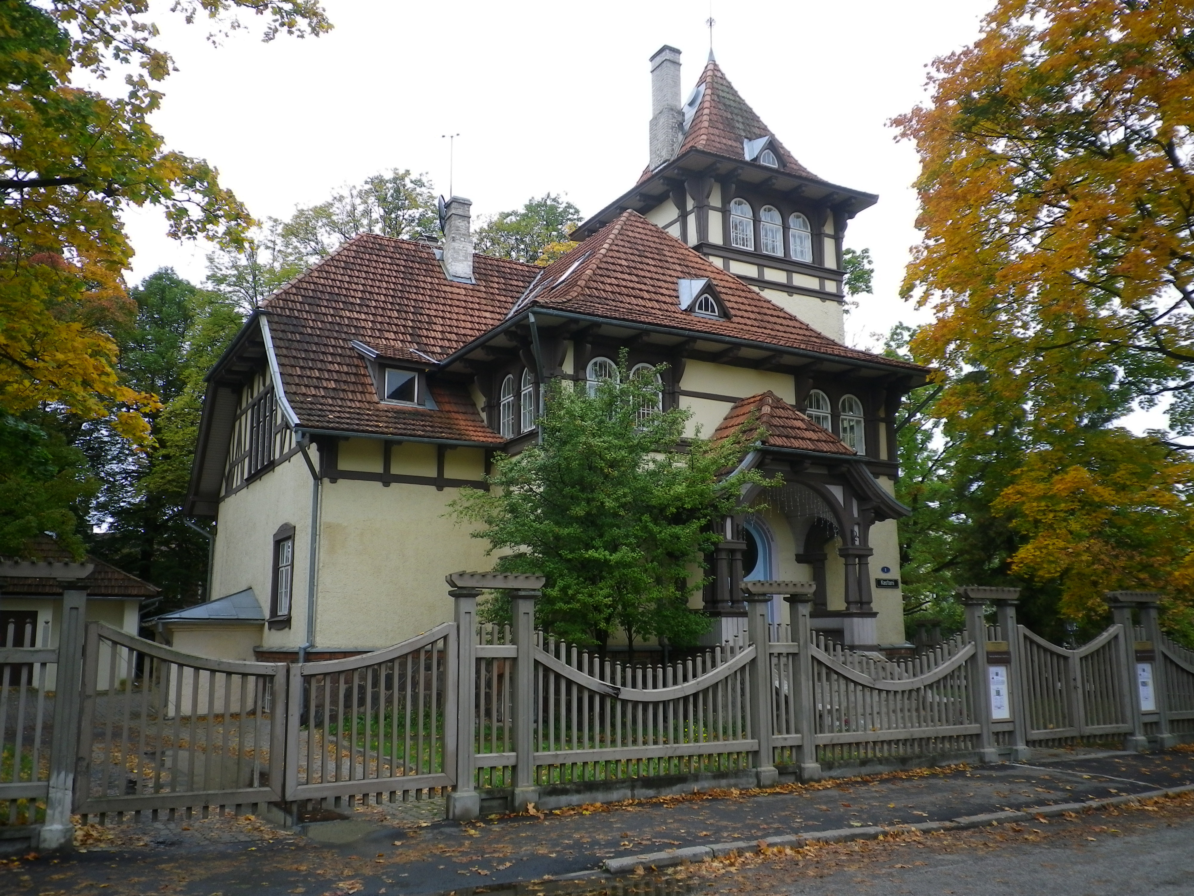 1 Kastani St, Tartu, Neobaltia student fraternity, at present - Institute of German Culture